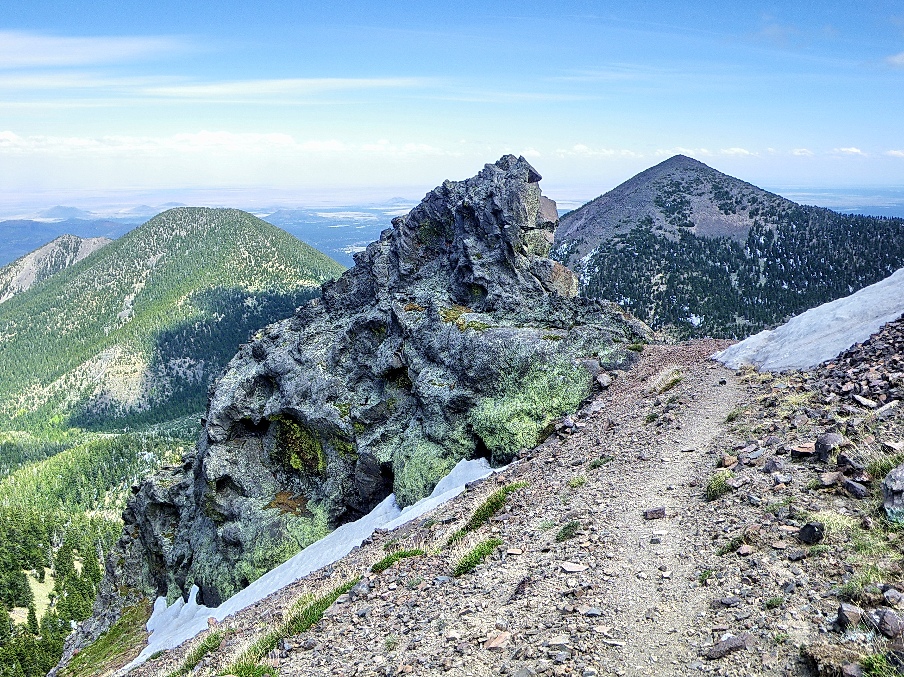 Doyle Peak and Fremont Peak in the San Francisco Peak of Arizona. I hiked from Lockett Meadow on the Inner Basin Trail to the Weatherford Trail to Humphrey's Summit in the San Francisco Peaks Wilderness north of Flagstaff Arizona. Looking southeast at Doyle Peak and Fremont Peak from the east side of Agassiz Peak. The Snowbowl is on the other side of Agassiz.